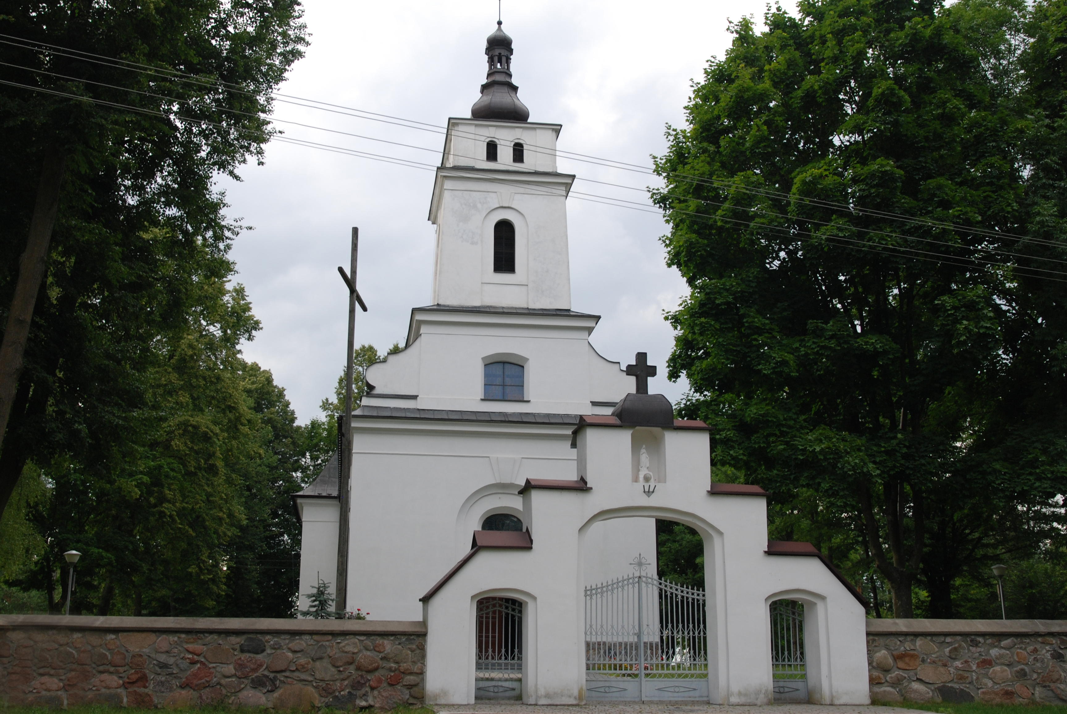 This photo from Podlaskie Voievodeship was taken during Polish Wikiexpedition 2009 set up by Wikimedia Polska Association. The making of this document was supported by Wikimedia Polska. Kosciół pod wezwaniem przemienienia NMP Matki Bolesnej w Osmoli